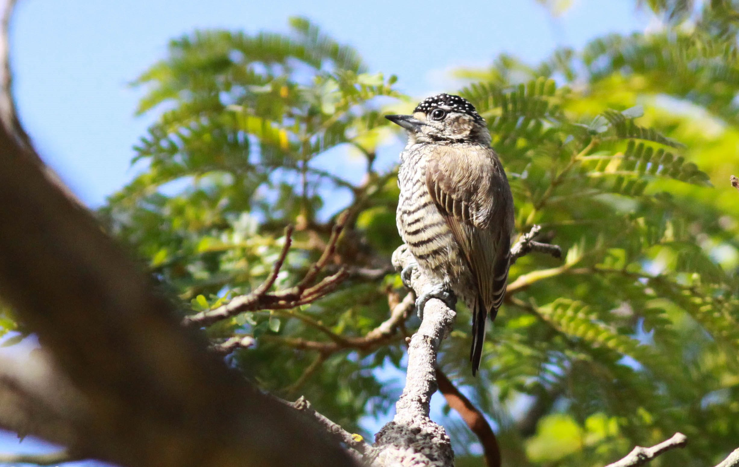 Picumnus cirratus